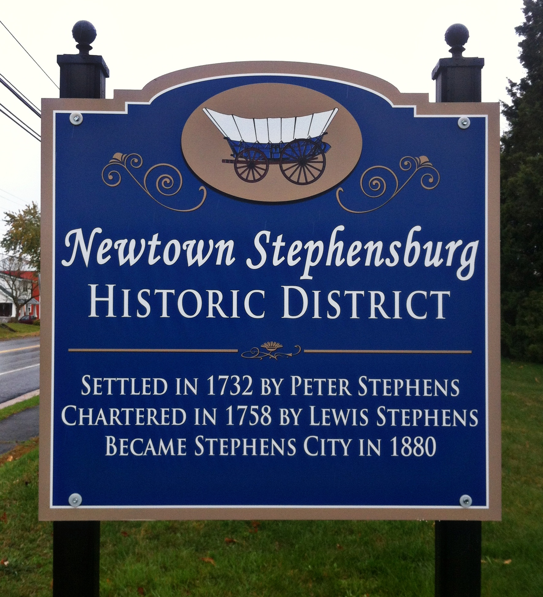 A Newtown-Stephensburg Historic District sign on the corner of Farmview Drive and Main Street in Stephens City, Virginia.